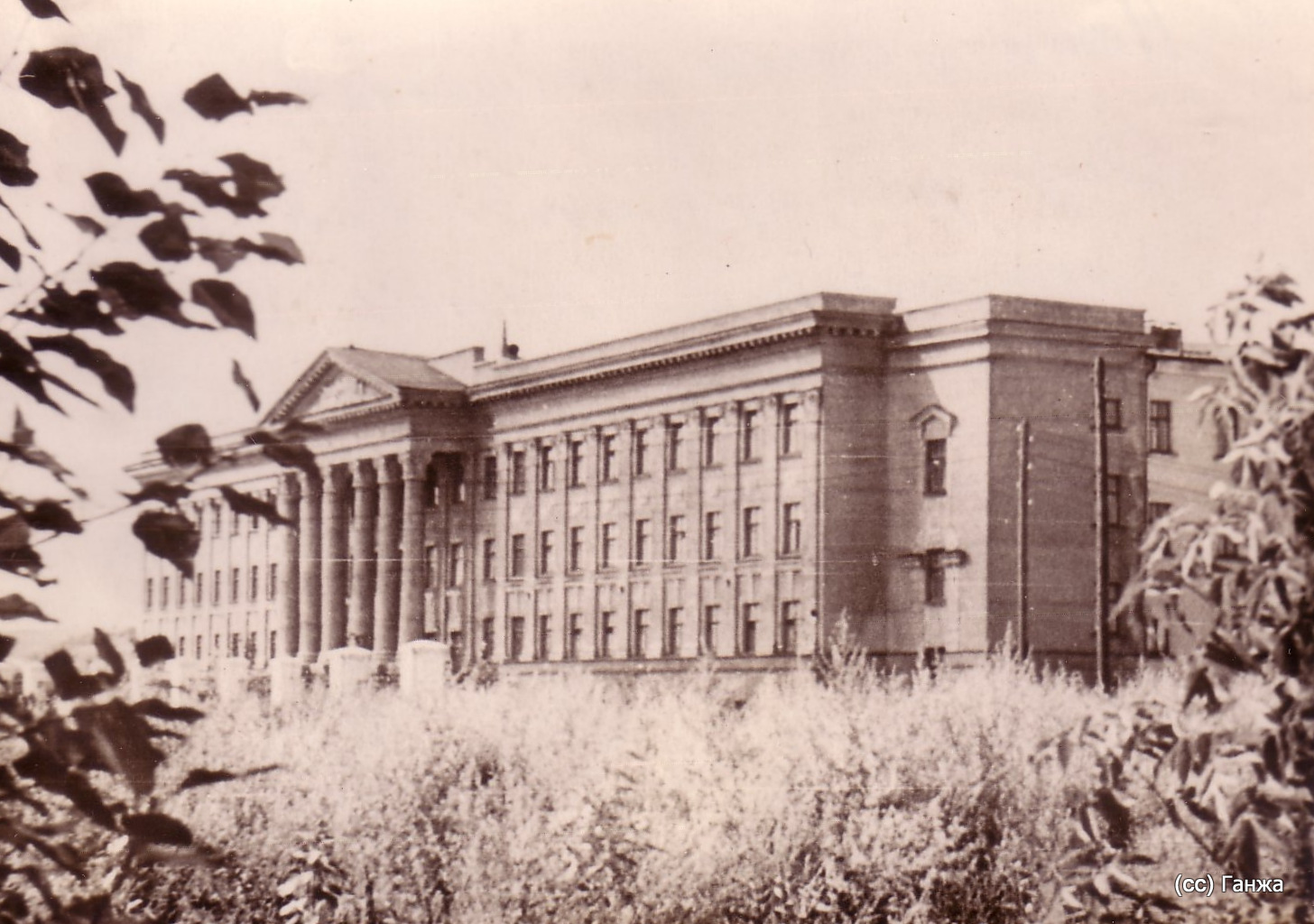 Novosibirsk Electromechanical Technical School of Transport Construction